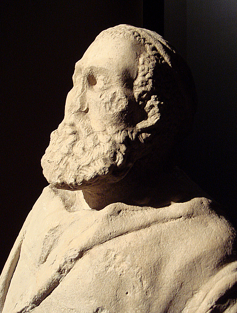 Sculpture of an old man, possibly a philosopher. Ai Khanoum, 2nd century BCE. Musee Guimet. Personal photograph 2006.